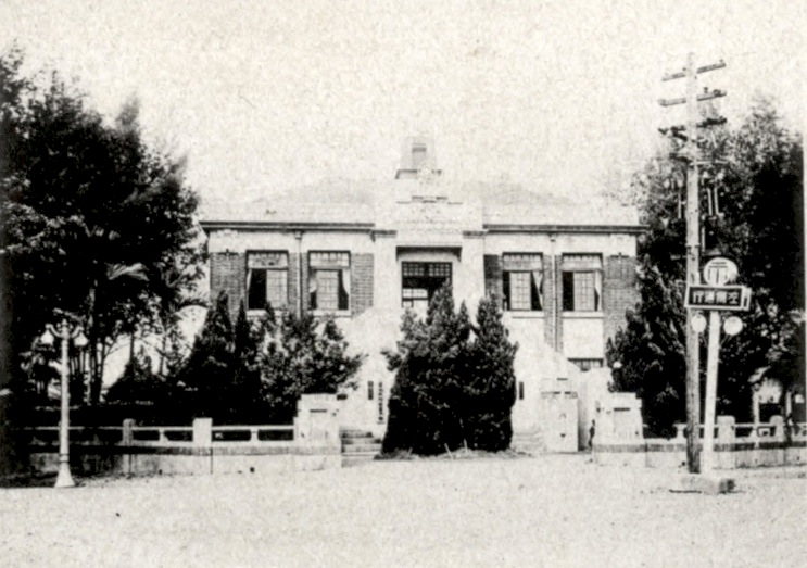 草屯街役場